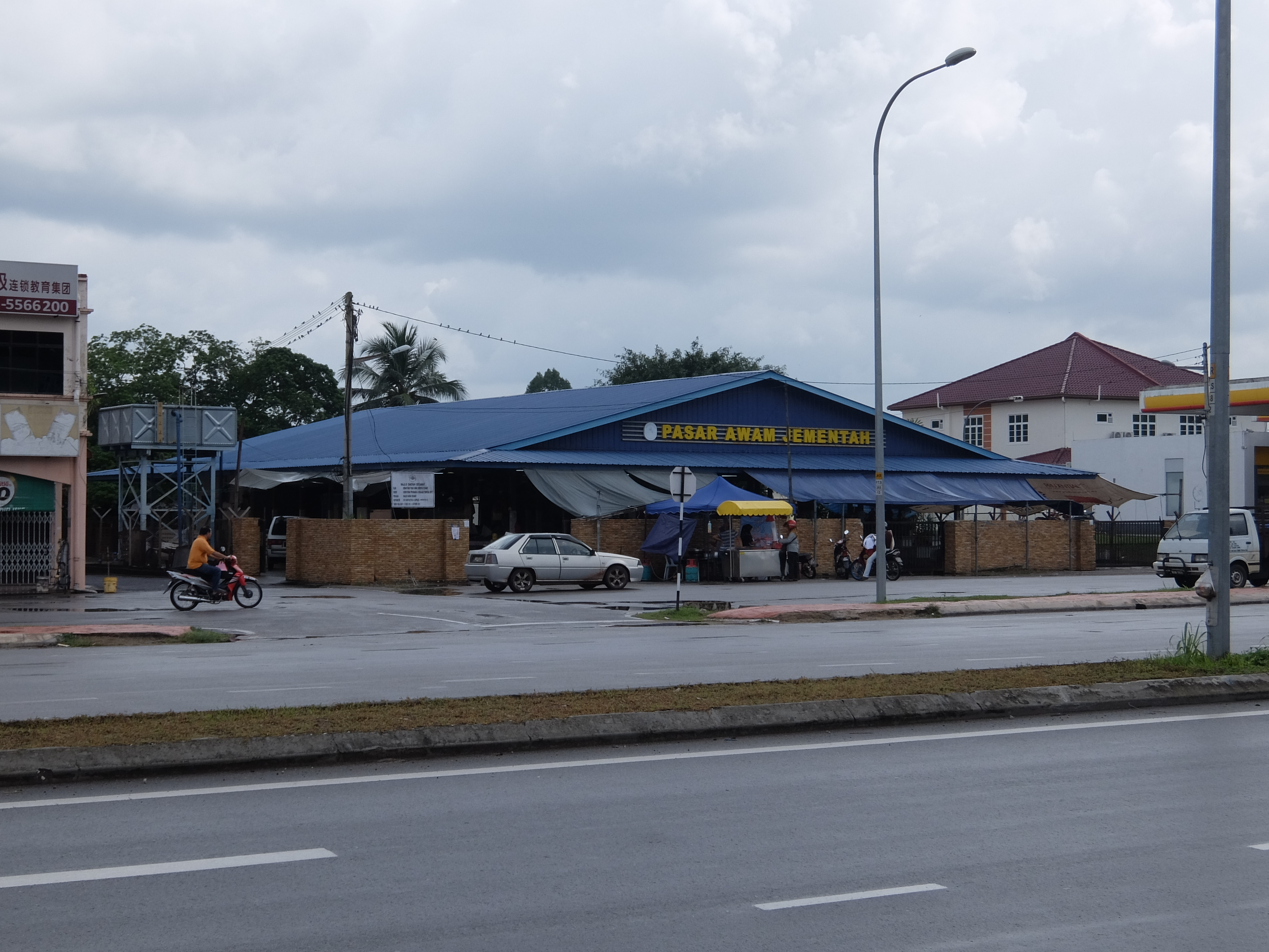 Jementah Public Market, Jementah, Segamat, Johor, Malaysia